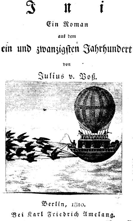 Title page of Julius von Voß Ini. Ein Roman aus dem ein und zwanzigsten Jahrhundert. Berlin 1810.